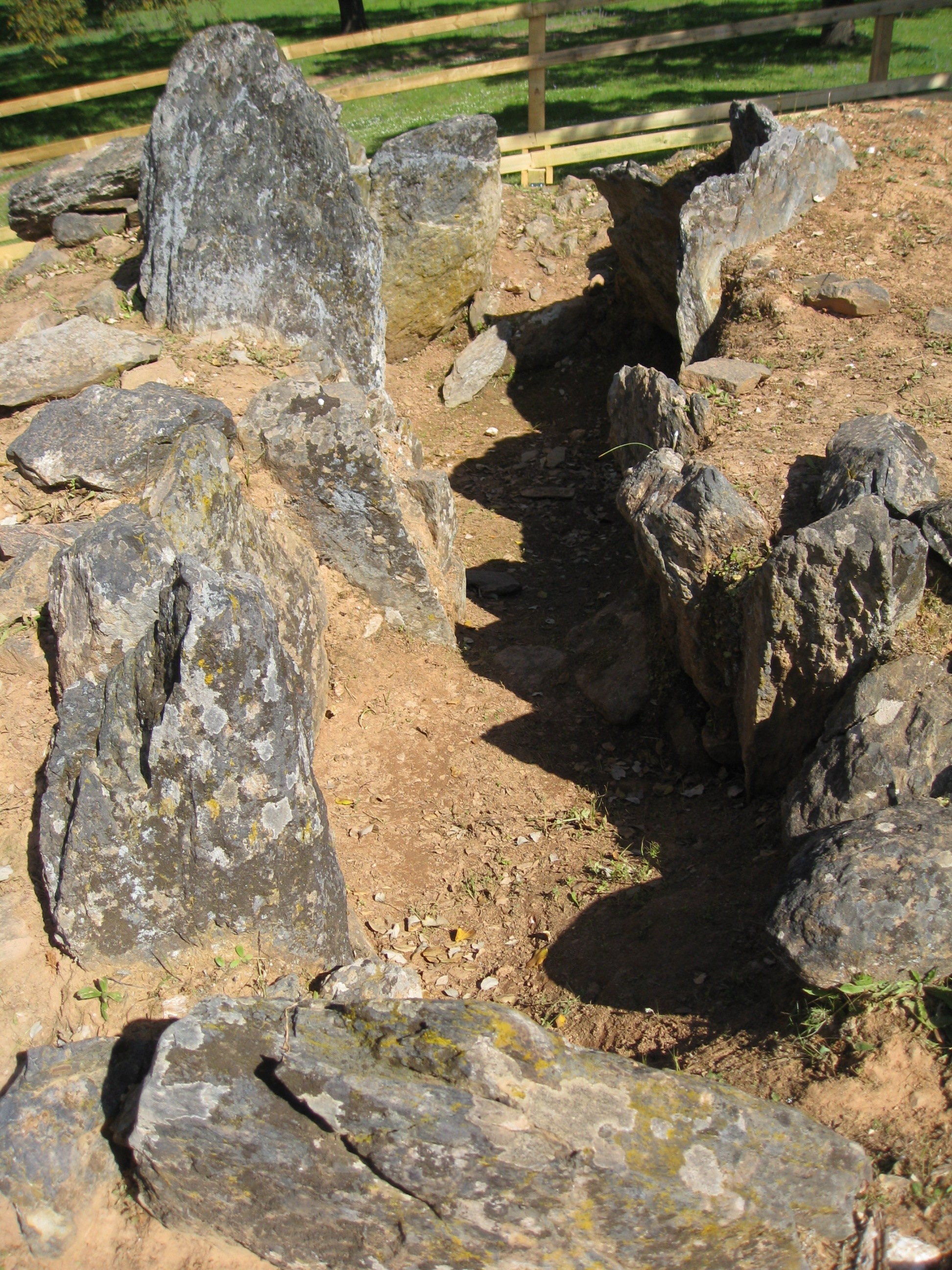 Megalithic Monument in Lousal Alentejo Portugal